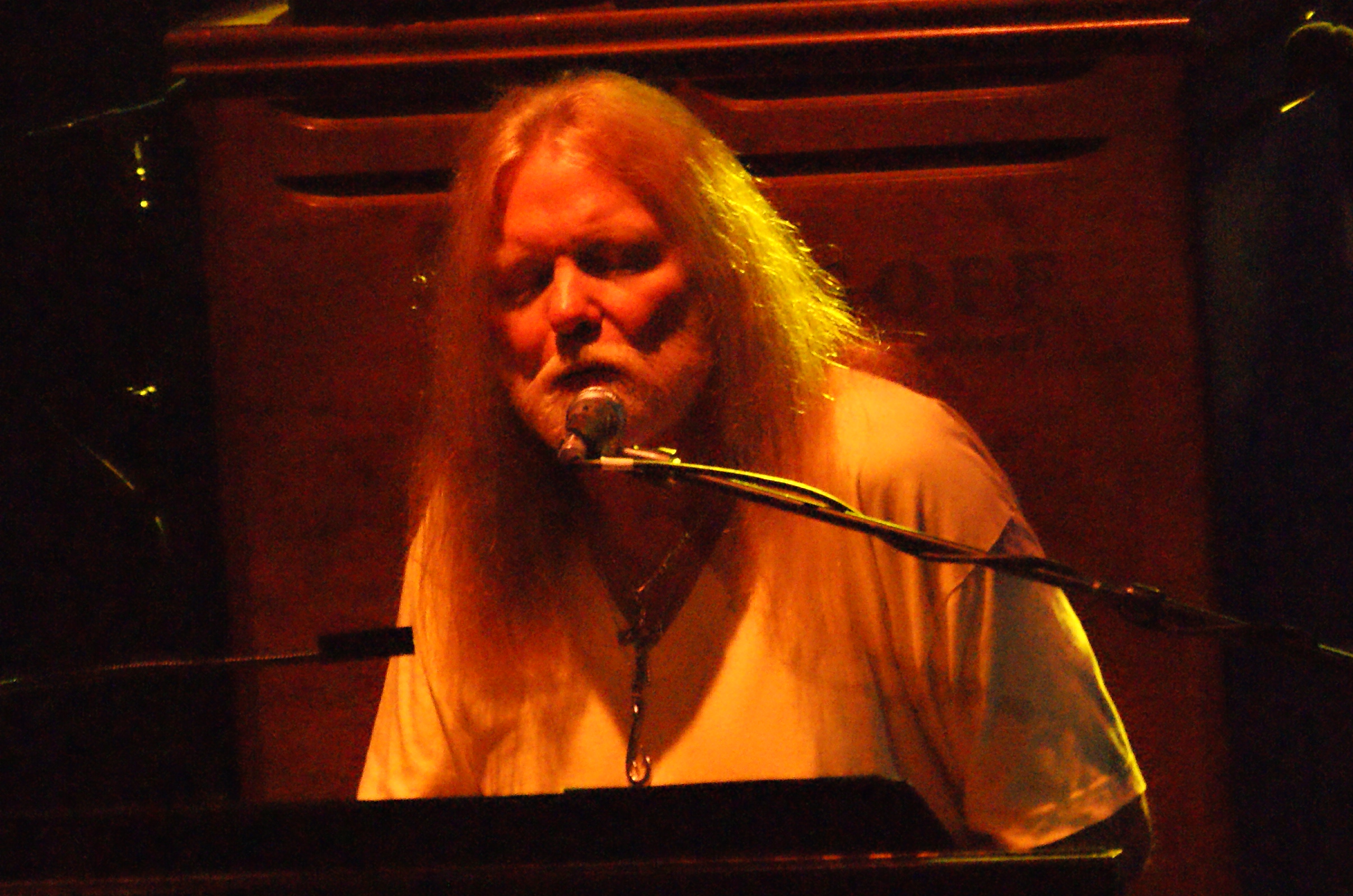 Gregg Allman playing at the Beacon Theatre, New York City on March 26, 2009.